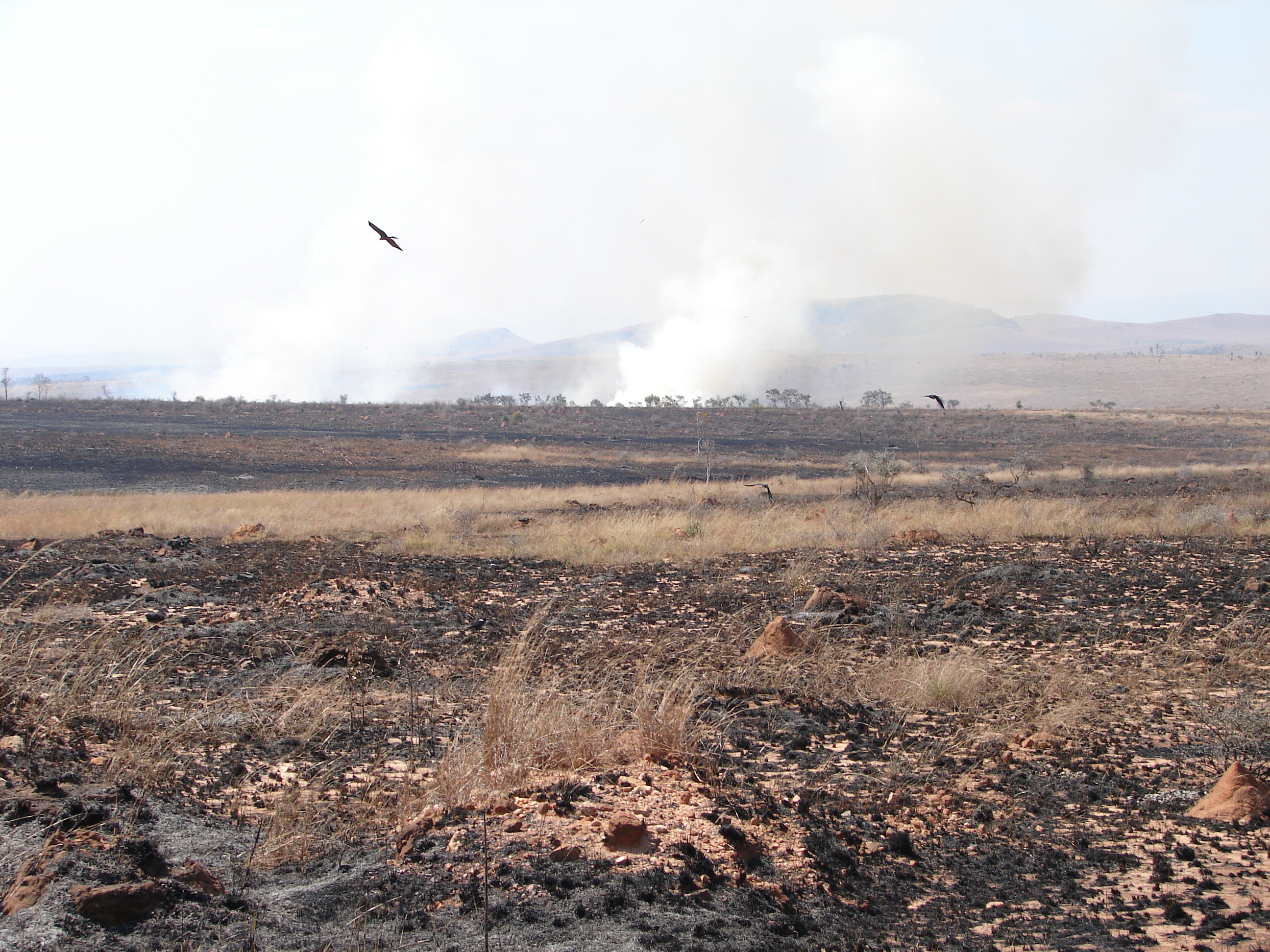 Slash and burn in Isalo National Park, Madagascar.